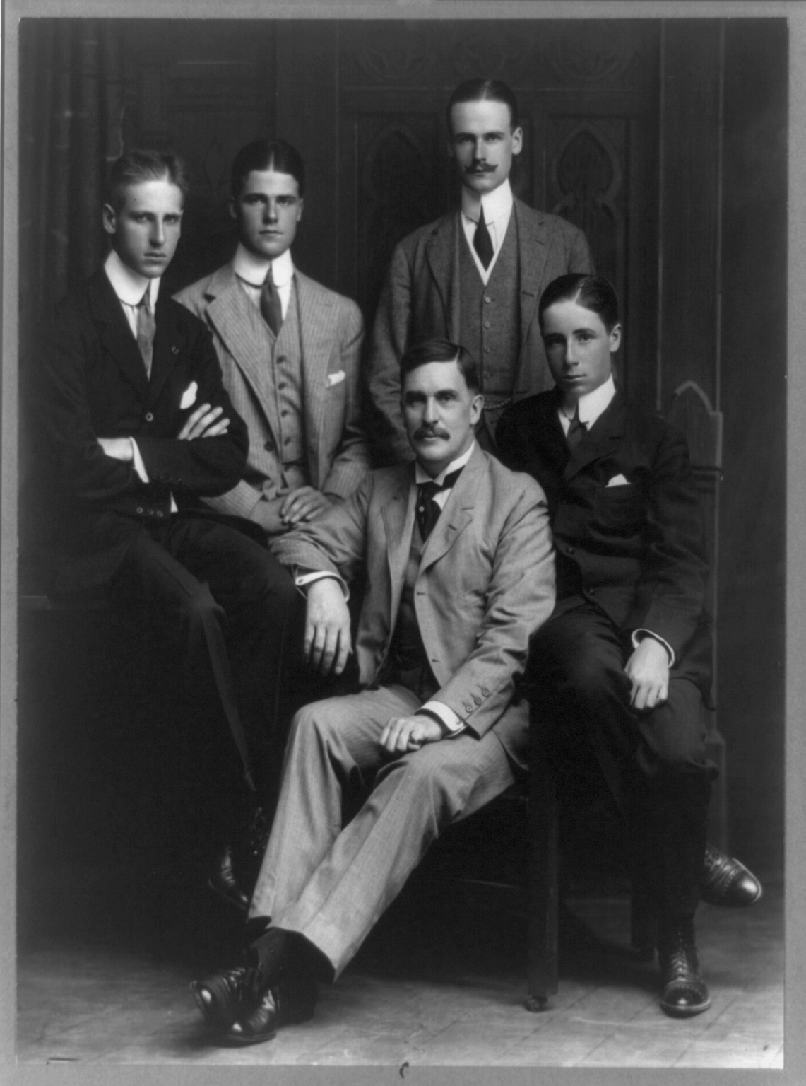 Photograph of Thomas Mott Osborne and his family from the Library of Congress American Memory Collection.